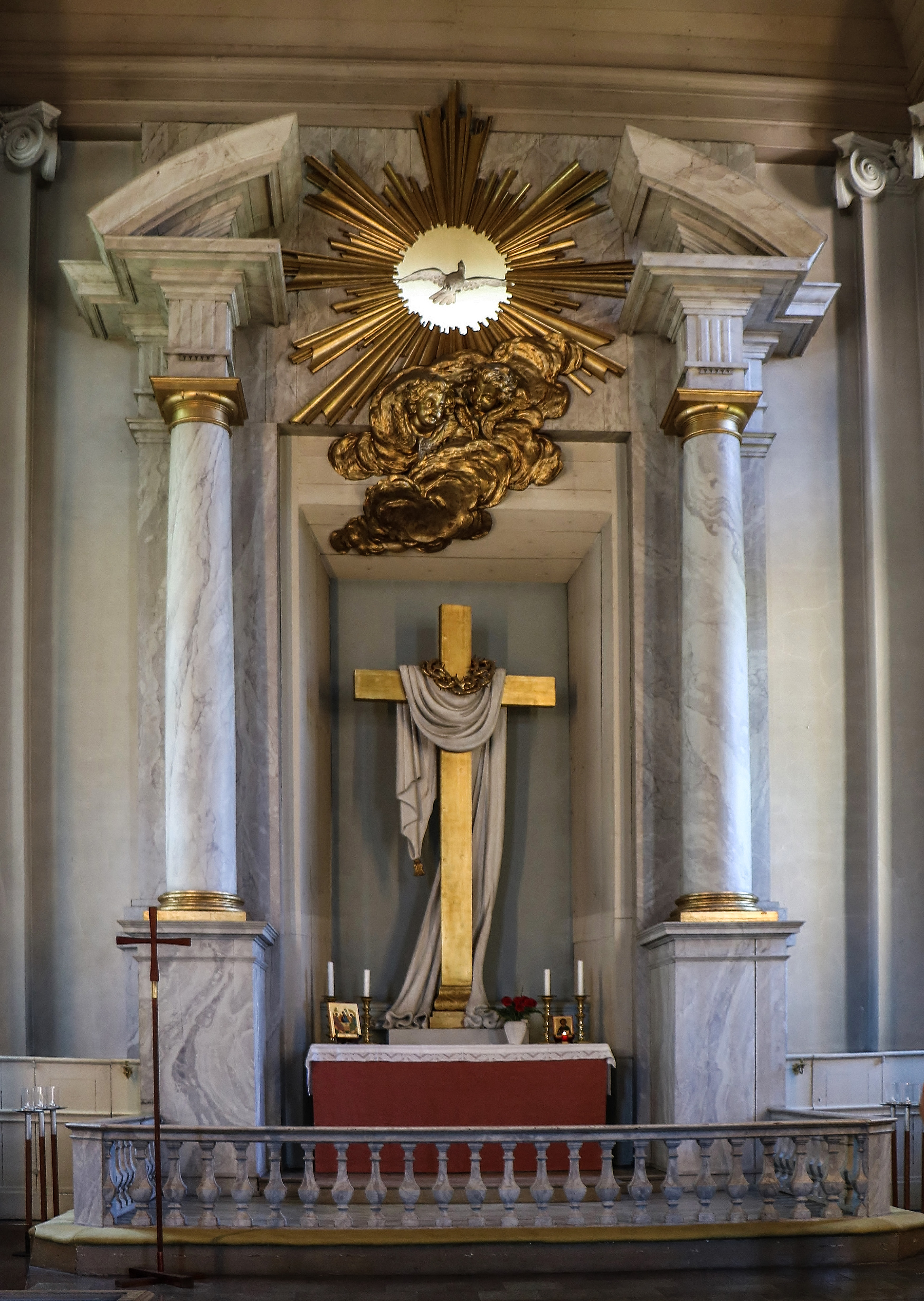 Holy Trinity Church, Karlskrona.The chancel